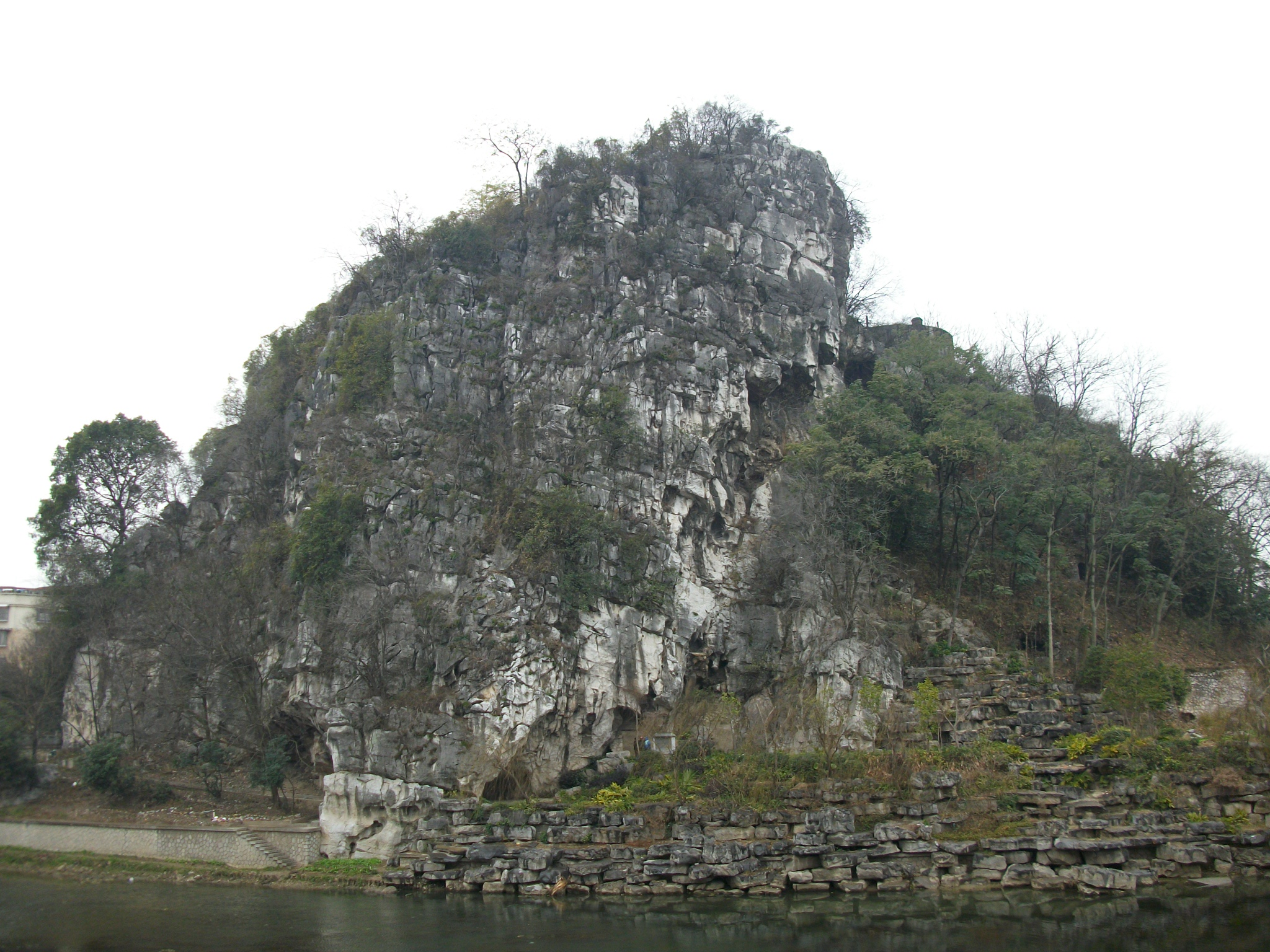 Zhishan Hill, Guilin.